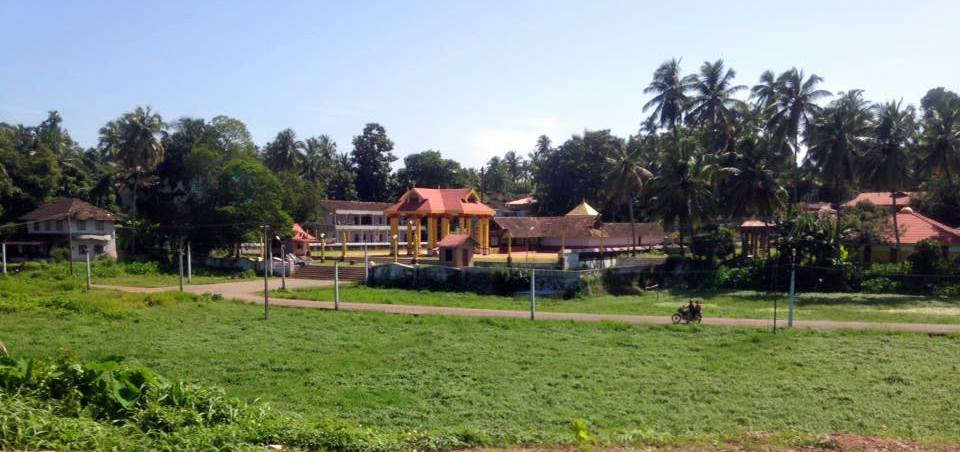 Sree Jagannath Temple, Thalassery, Kerala